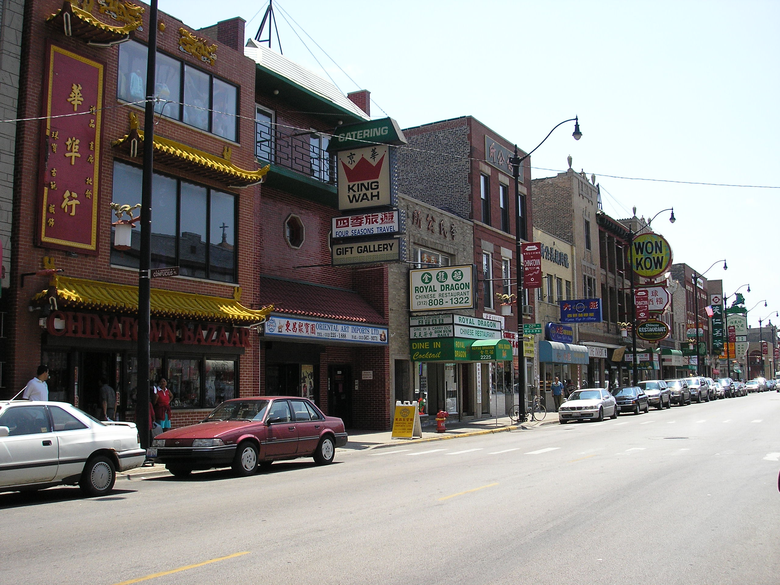 photo taken by Slo-mo